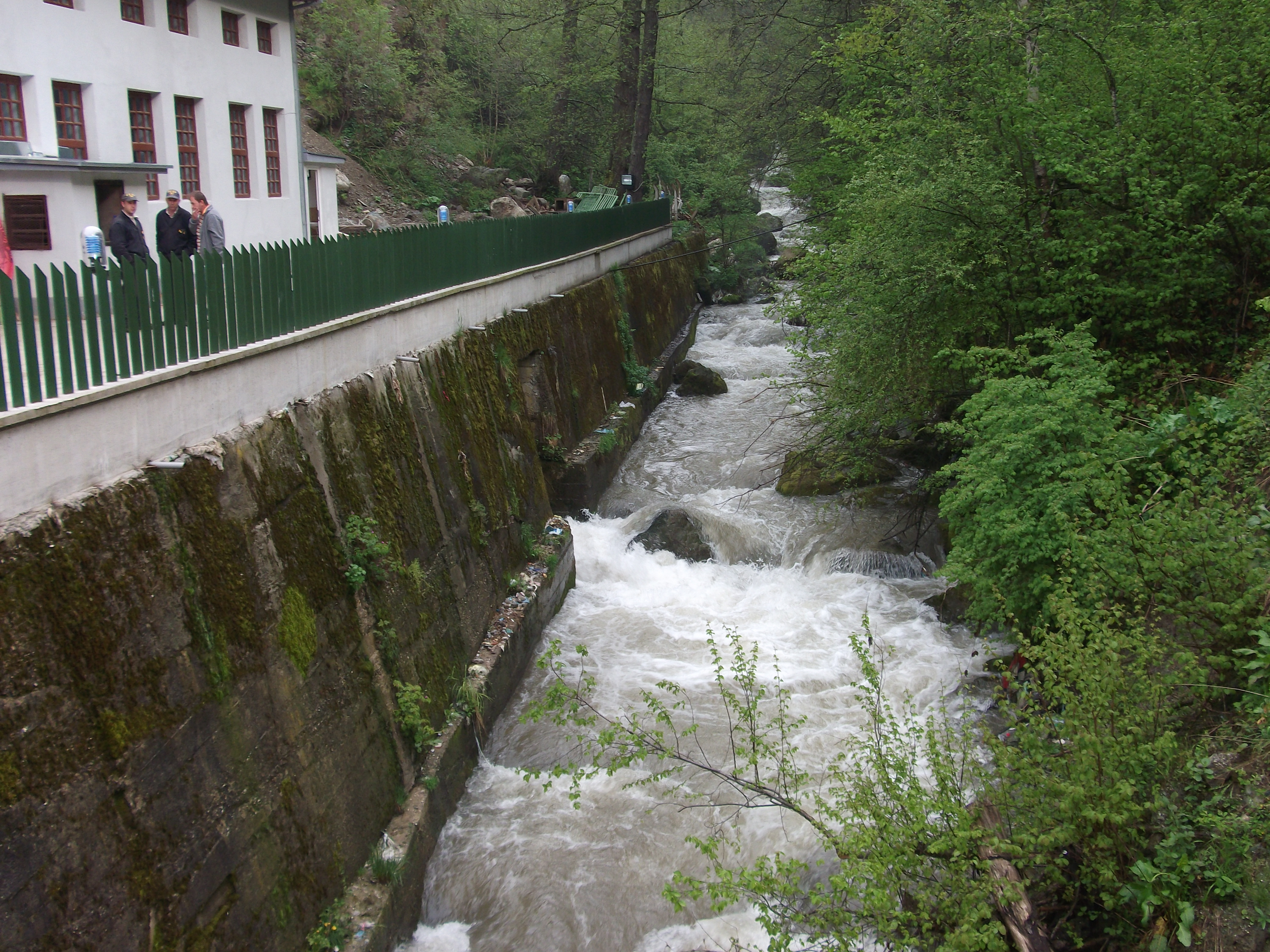 Hidrocentrali I Dikances – Dragash Kosove Hidrocentrali I dikances eshte I ndertuar ne vitn 1957 ne mallet e sharrit ne nje larsi mbidetare afo 1500m. ky hidrocentral ka qen ne funkcion deri ne vitin 2001 dhe ishte ne pronsi te korporates energjetike te kosoves. Pase nje ndrprerje afro 9 vjeqare hidrocentrali kthehet ne pune ne pronsi te Frigo Food Energy Invest. nga janri I vitit 2010. Gjendja e tanishme: Hidrocentrali punon me dy gjenerator me kapacitet maksimal prej 950 kWh energji elektrike, ne nje periudh 10 mujore, ndersa ne perioden e thatesirave zvoglon kapacitetin e prodhimit. Gjeneratoret jane te prodhuesit Rade Konqar prodhim I vitit 1975, ndersa rregullatori I rrymes I llojit Litostroj. Sistemi I furnizimit me uje behet nga lumi I Brodit me nje kanal te ndertuar me nje gjatesi 925m dhe me nje rezervuar akumulues me diameter 7,0 m dhe thellesi prej 7,0m (kapacitet 270 m3). Ramja e ujit nga rezervuari deri ne turbine behet me gyp me diameter prej 70 cm ne nje lartesi prej 115 m. Ne kete hidrocentral per momentin jane te punsuar 9 persona. Gjithashtu ka fillue edhe nderimi I gjeneratorit te tret me nje teknologji me te avancuar dhe me nje kapacitet me te madhe. Personat kontaktue ne vendin e ngjarjes: Nazyf Bojaxhiu dhe Visar Ibrahimi